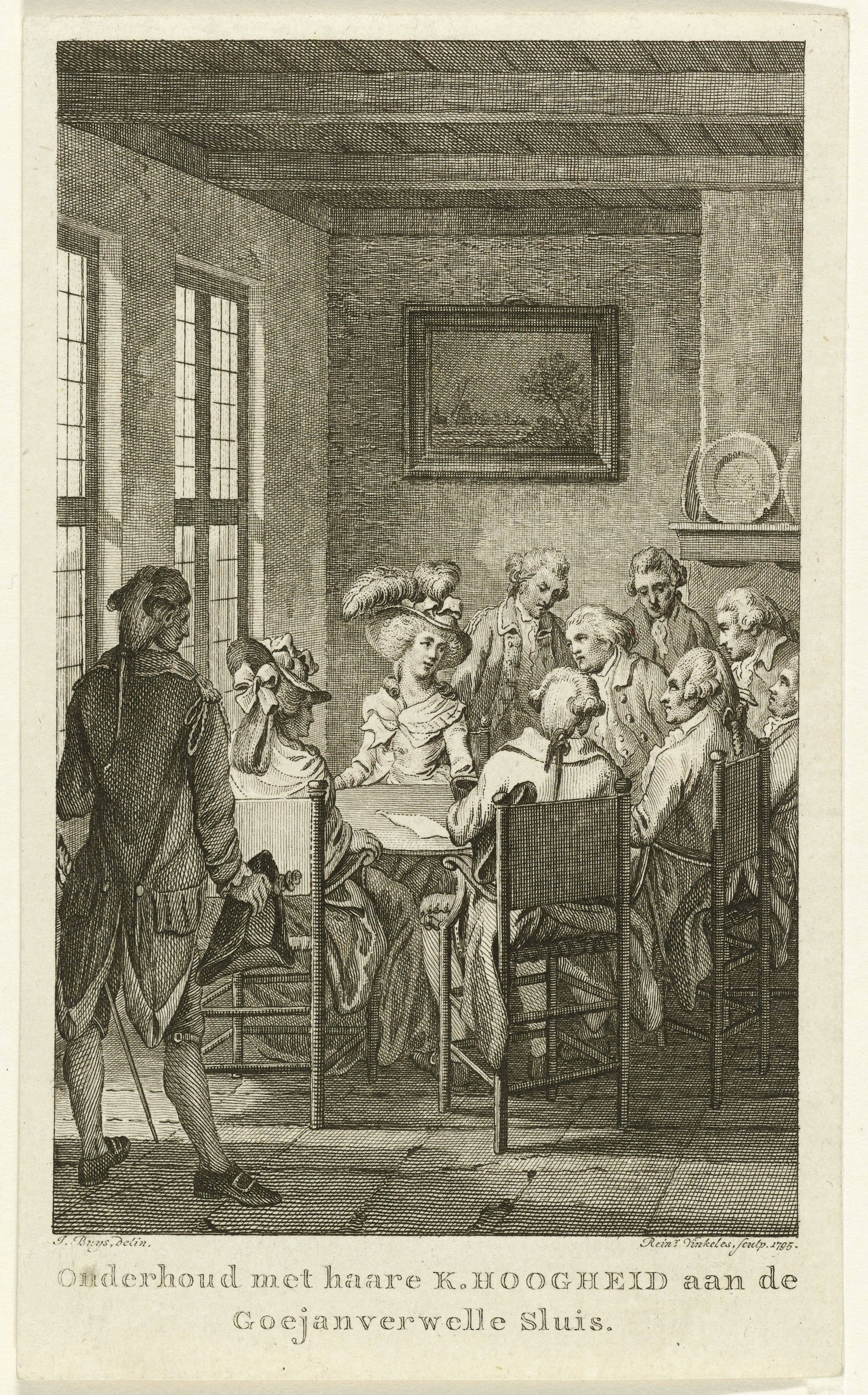 Conversation with H.R.H. Wilhelmina of Prussia, Princess of Orange at the Goejanverwellesluis